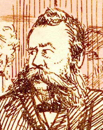 1878 caricature sketch of Justice Andries Stockenstrom - Attorney General of Cape Colony. From the Lantern newspaper.